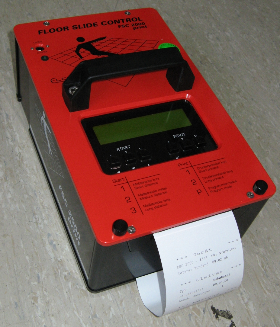 Shows a friction measurement device. Type: fsc 2000 print.